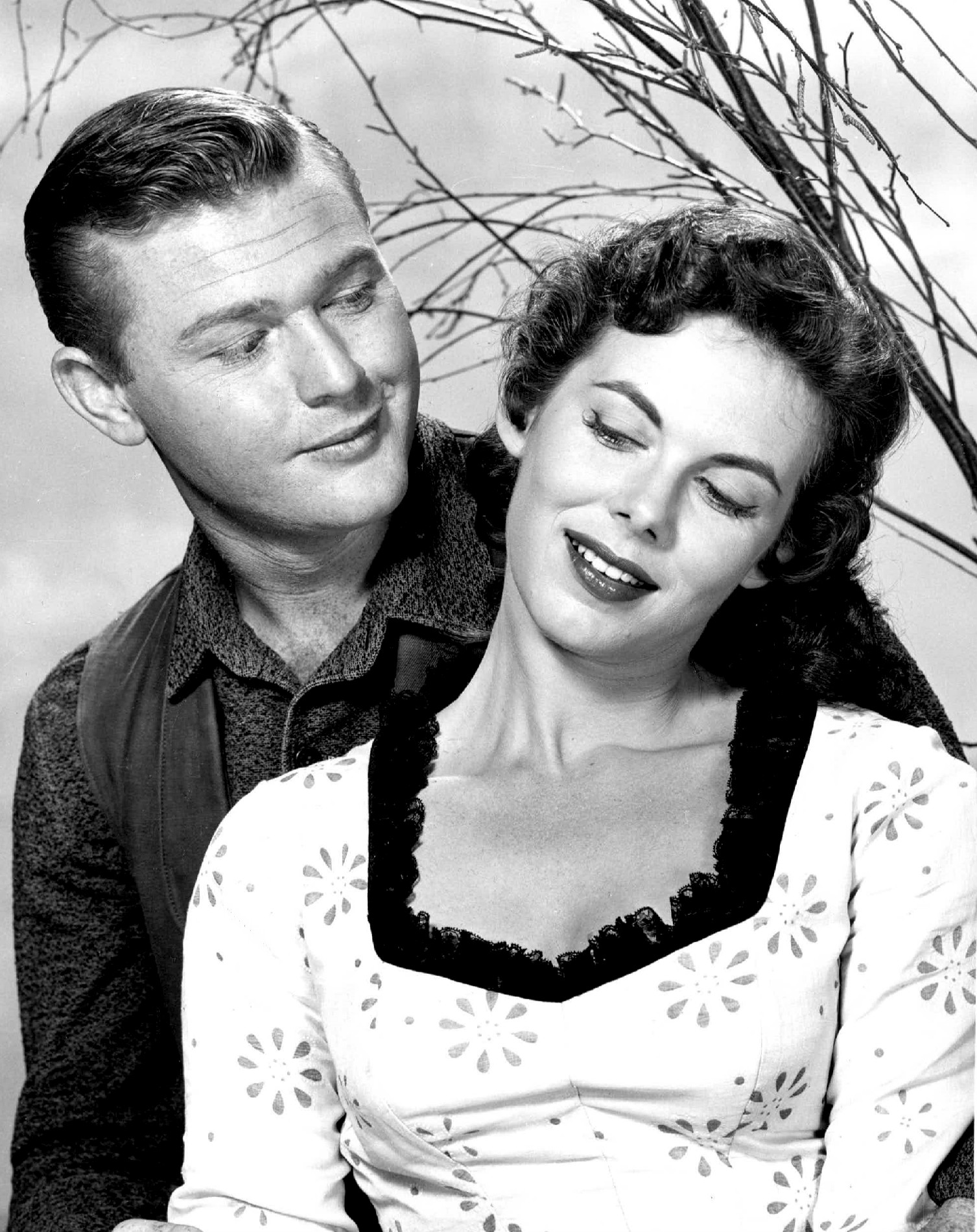 Photo of Martin Milner and Vanessa Brown from an appearance on Wagon Train.